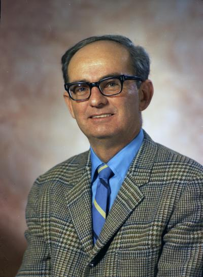 Representative Robert L. Charette, 1971